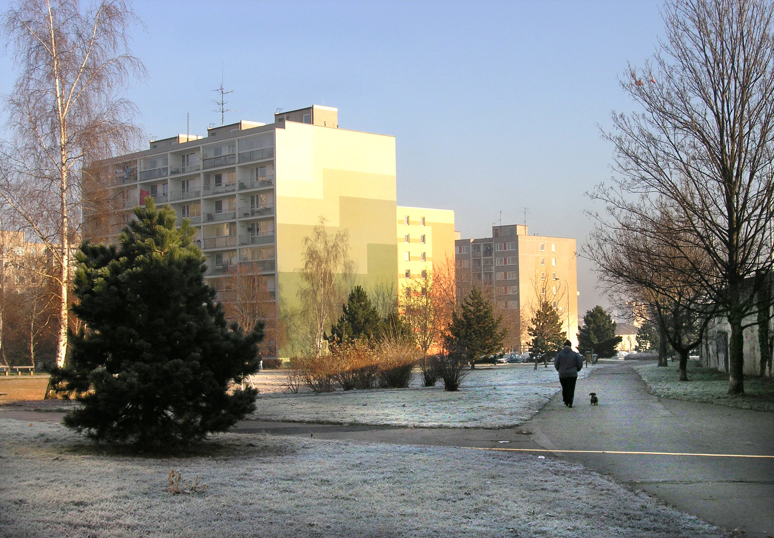 Košík neighbourhood, Prague